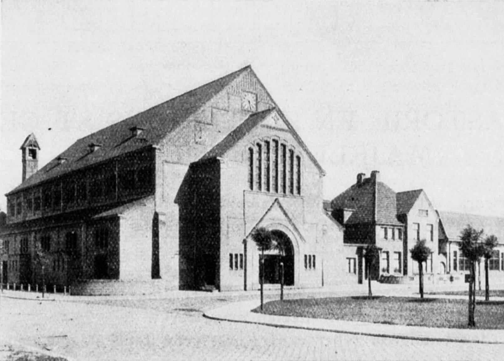 The Gerardus Majellakerk, Tilburg, seen from the northwest. The front and sides facades are shown, and the clergy house can be seen on the right.